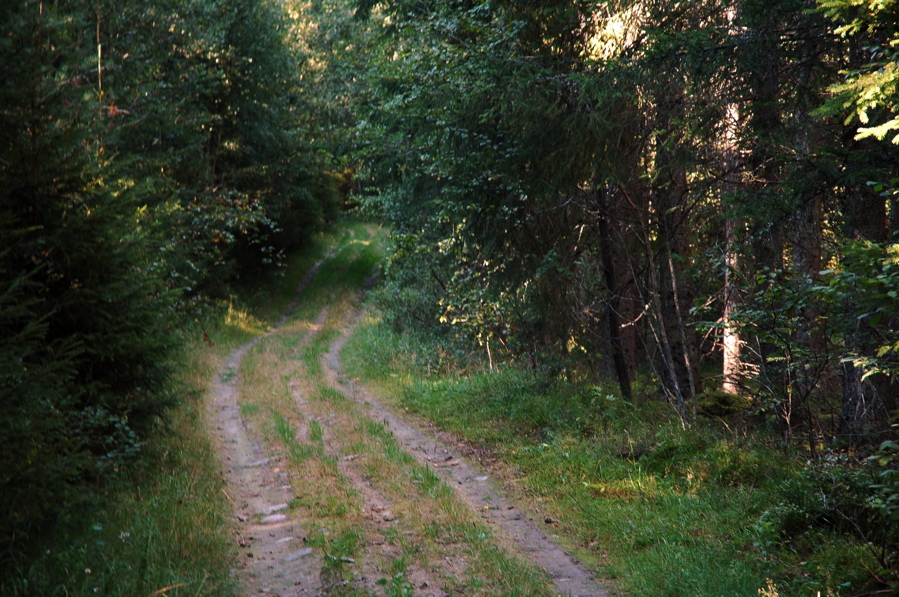 Carriage road at the last stretch to Sweden near Orderudseter, where over 800 refugees were evacuated to avoid Nazi capture and deportation to concentration camps